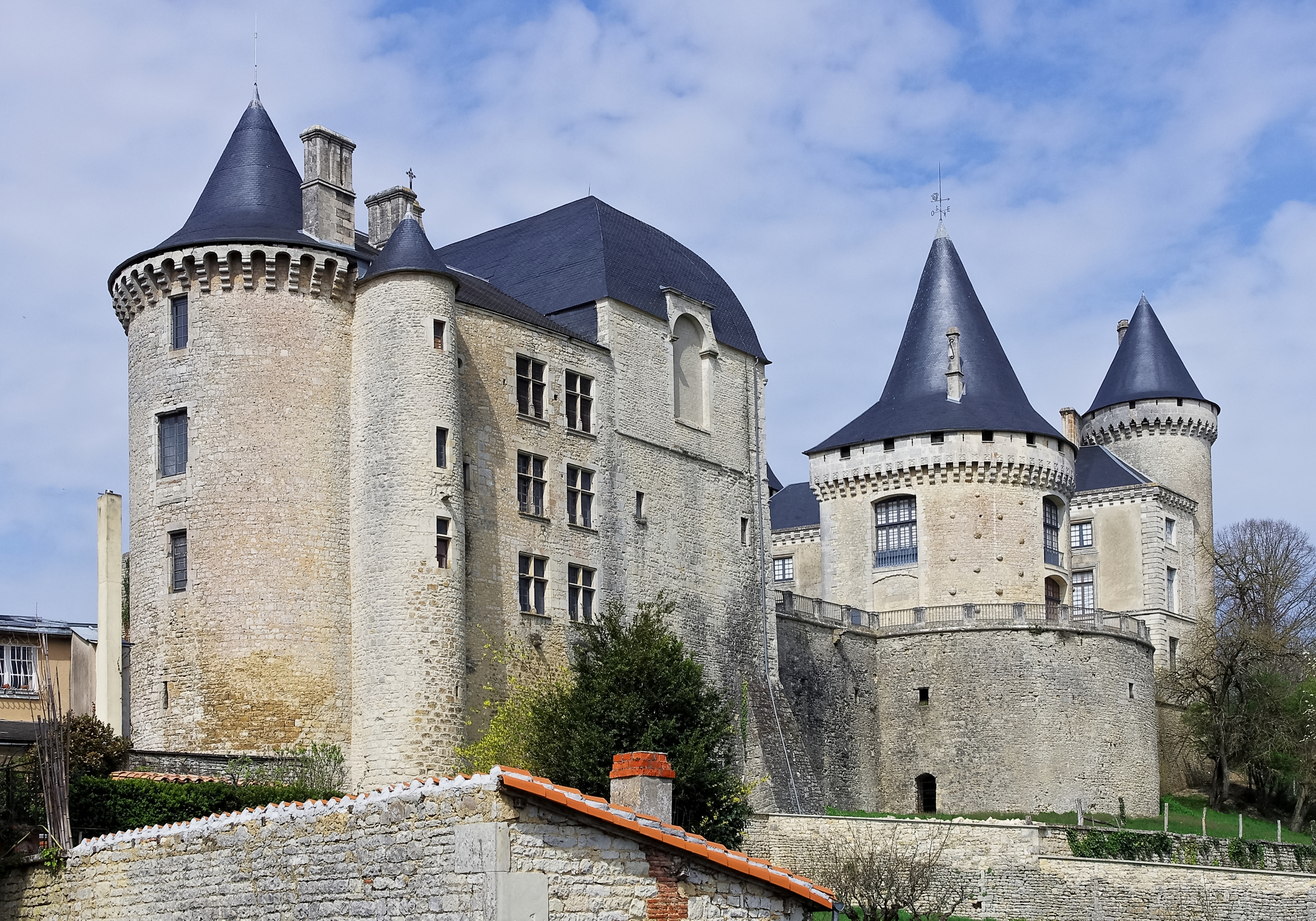 Castle (11th-19th centuries), Verteuil-sur-Charente, France. .